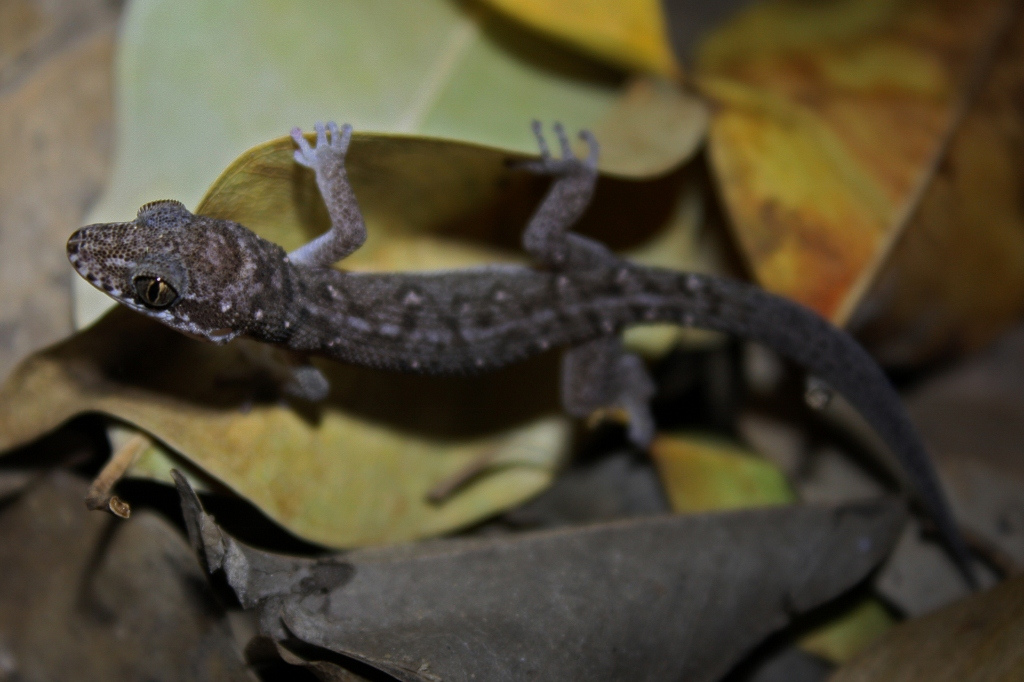 Found in marshland in Sa Kaeo, Thailand.